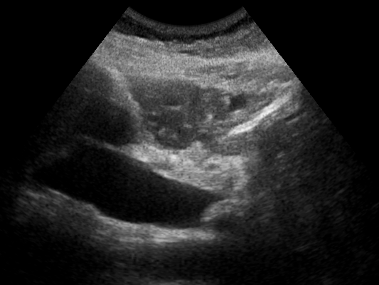 Adenocarcinoma of Ampulla of Vater , resulting in dilatation of common bile duct measuring more than 30mm's. Medical ultrasound image. Provided as-is. Please feel free to categorise, add description, crop.